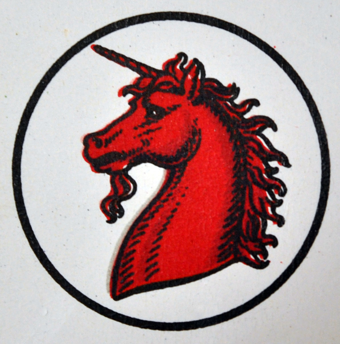 Division sign of the 50th (Northumbrian) Division of World War One, not worn, used on signs.